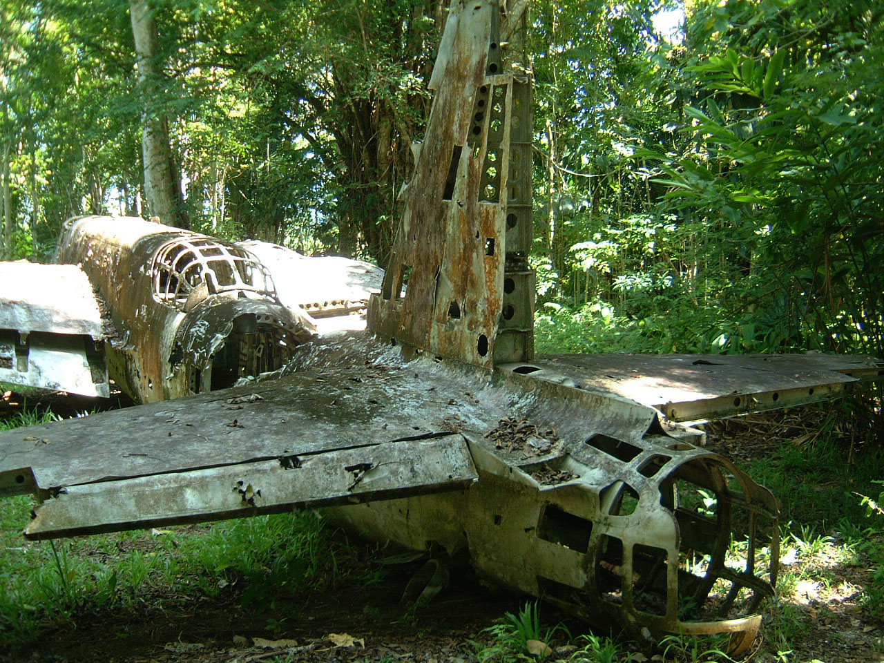 Matthew Laird Acred Wreck of an abandoned Nakajima Ki-49 Hellen after a USAAF raid. The airfield was unusable after the raid and several aircraft were left abandoned on the airfield. The exact airfield I can't recall but it's in the Madang area in PNG. Acred99 (talk) 12:55, 15 March 2009 (UTC)